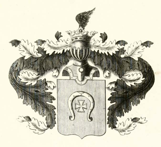 Coat of Arms of Bahtiny family